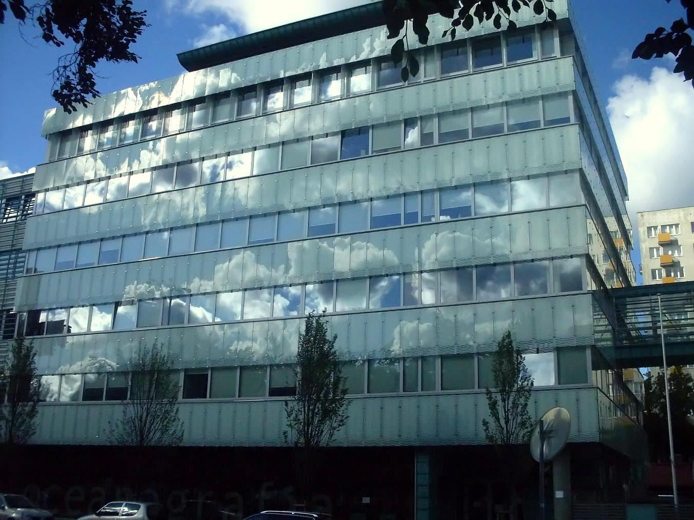 The Institute Of The Oceanography of Gdańsk University. Localisation at Aleja Józefa Piłsudskiego in Gdynia.